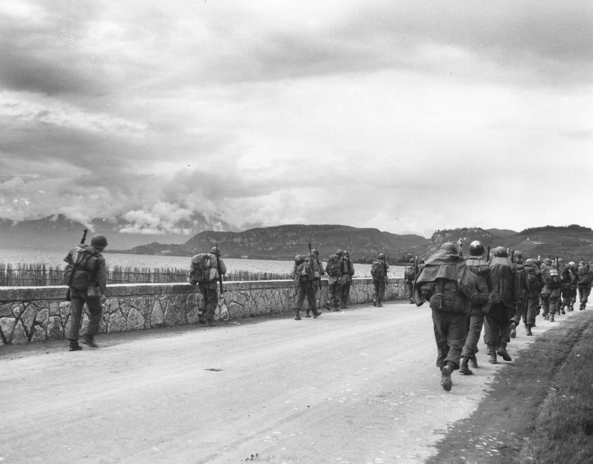 Members of the 86th Infantry Regiment, 10th Mountain Division, march north, near Malcesine, on Lake Garda, without meeting any resistance. Rear guard action is all that has been encountered so far. 29 Apr 1945.